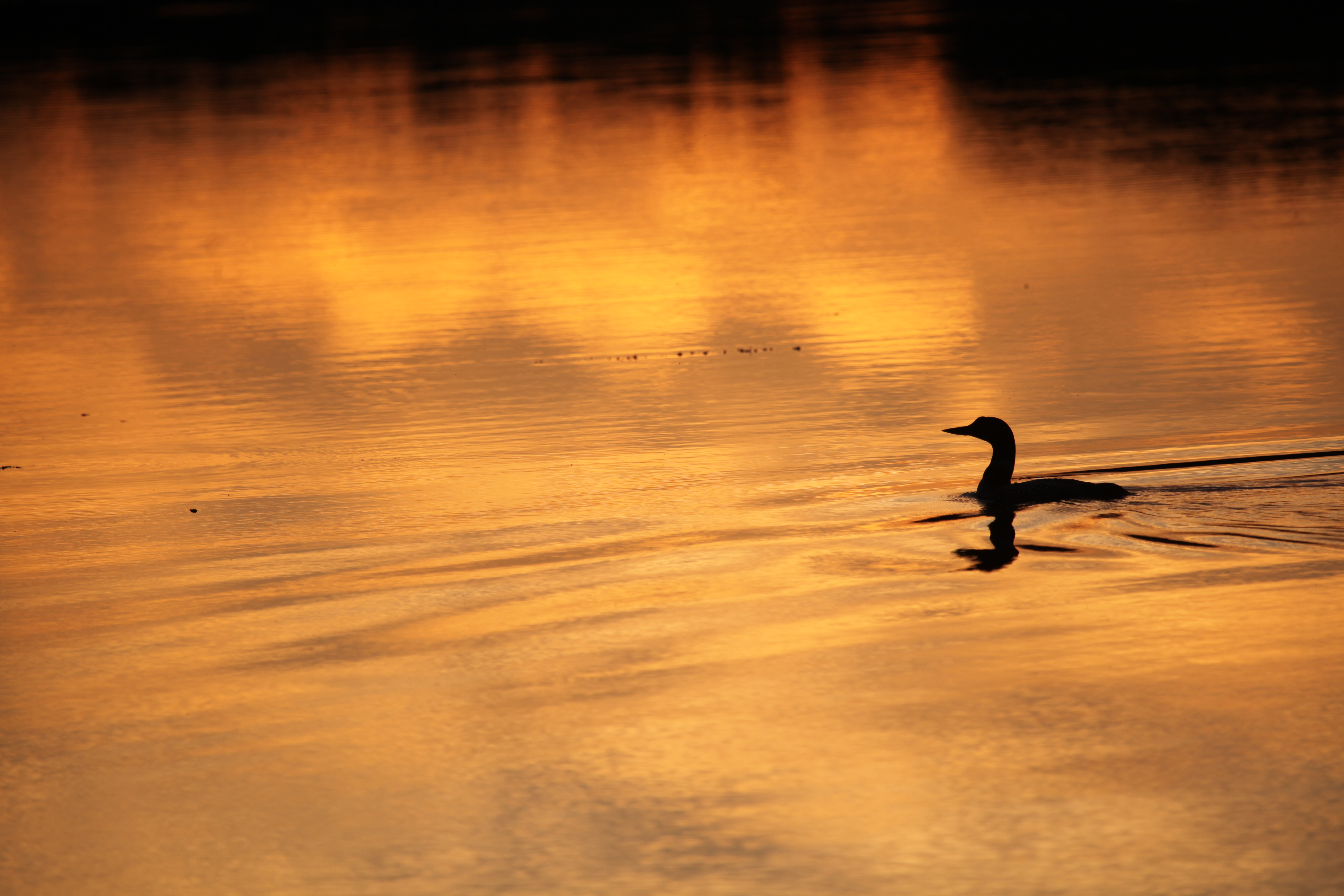 Common loon at Horn River, North West Territories. You are free to use this photo with the following credit: Joseph Sands, USFWS